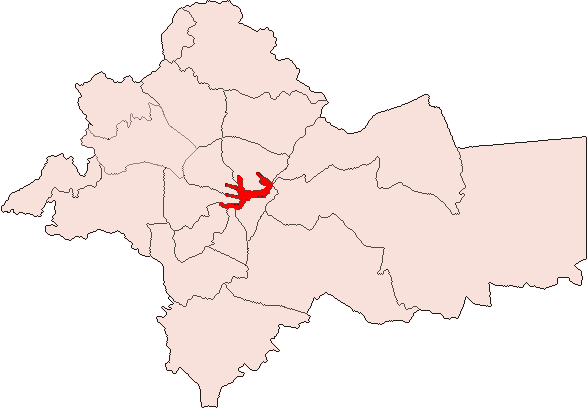 AMMAN-Medina.png — Maps of Amman User:Tarawneh/rami